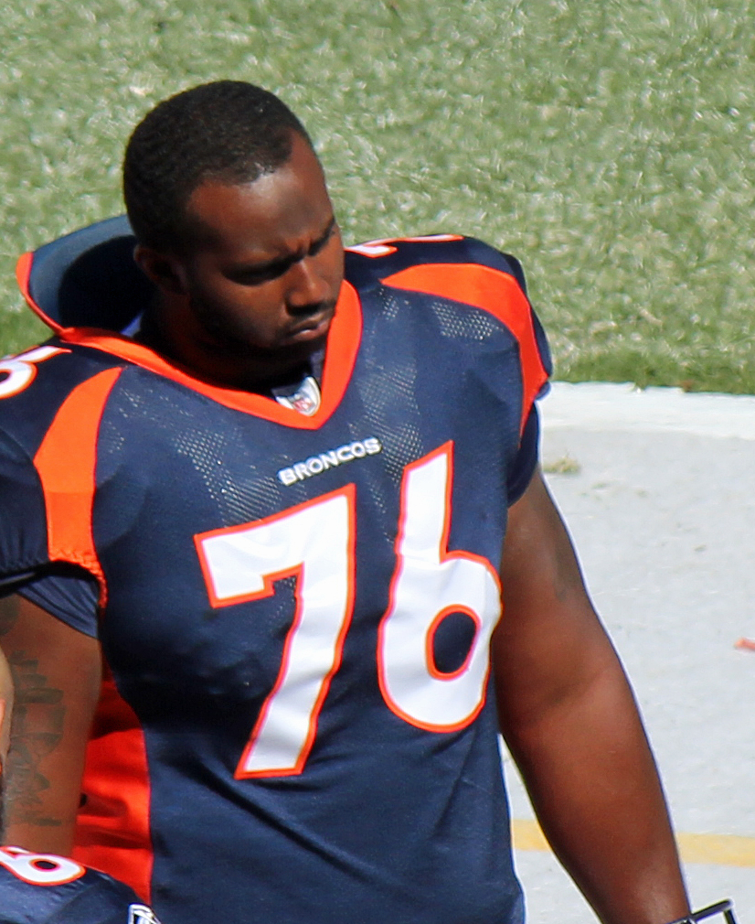 Tony Hills, a player on the National Football League.